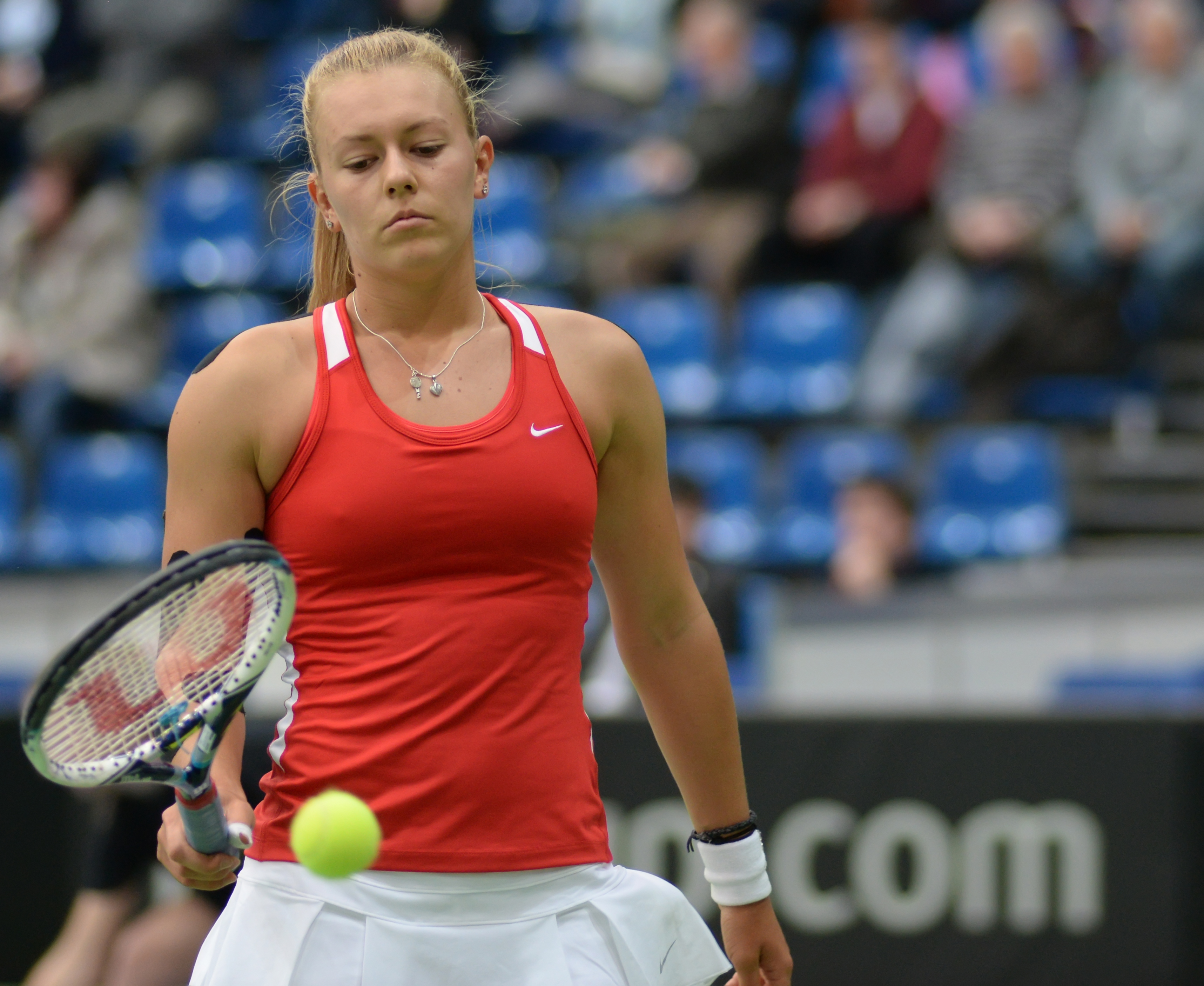 Dalma Gálfi at the 2015 Fed Cup